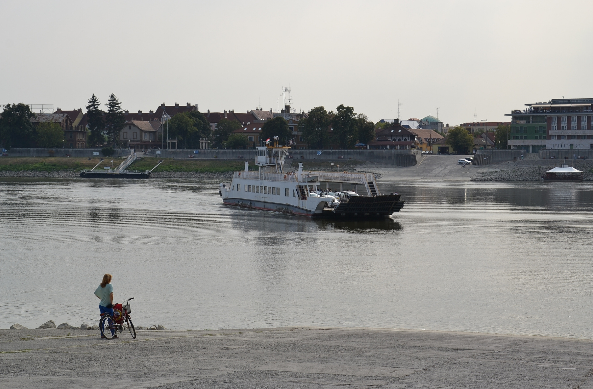 Danube - Ferry from Mohács to Újmohács, Hungary